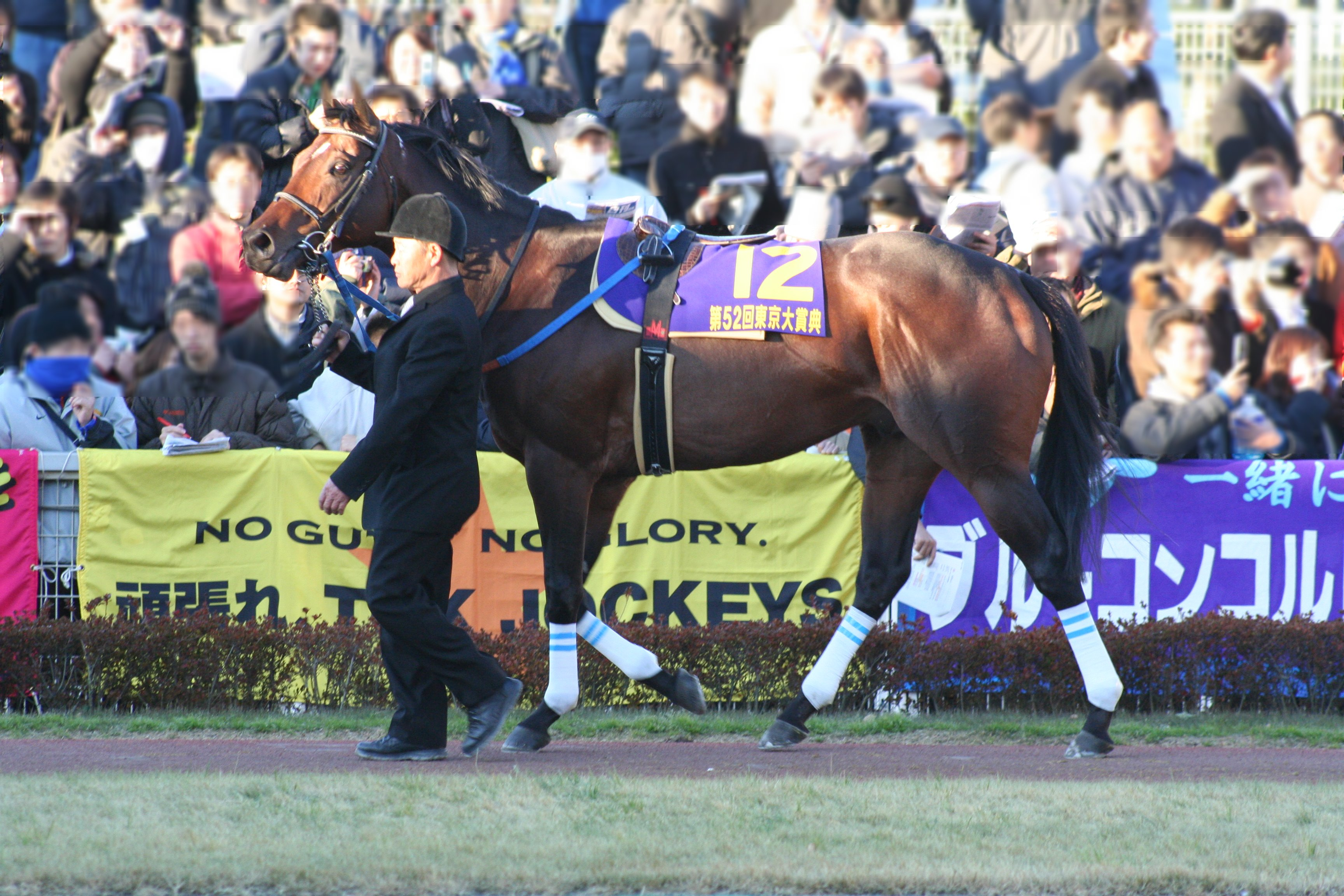 Blue Concold (horse)